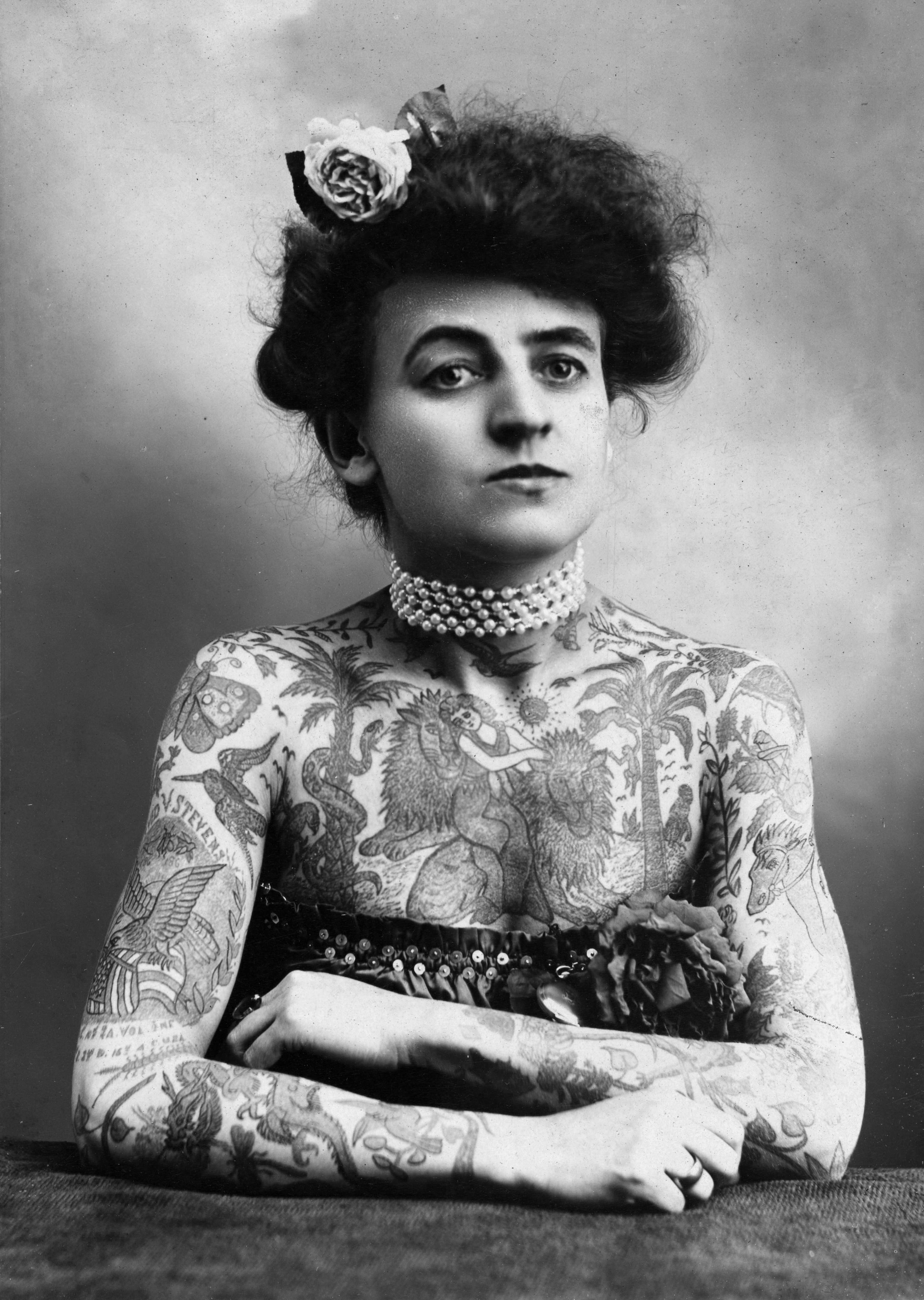 Mrs. M. Stevens Wagner, half lgth., facing slightly right, arms and chest covered with tattoos